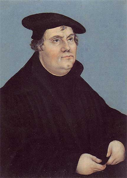 part of a double portrait with Phillipp Melanchthon right site